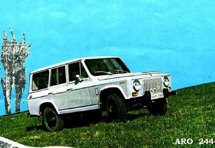 ARO 244, the 5-door off-road vehicle from the Romanian make ARO. This one was the first generation ARO, but the second front design, featuring the round headlights used on previos ARO IMS.